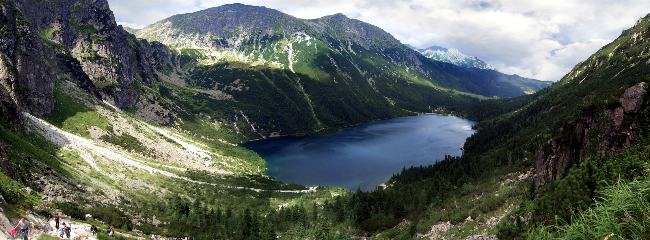 Morskie Oko Pond in Tatra Mountains, Poland